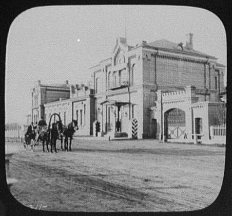 Title: Khabarovsk - residence of the governor-general of Eastern Siberia Physical description: 1 slide : lantern ; 3.25 x 4 in. Notes: Forms part of: Jackson, William Henry, 1843-1942. World's Transportation Commission photograph collection (Library of Congress).; Gift; William P. Meeker; 1971.